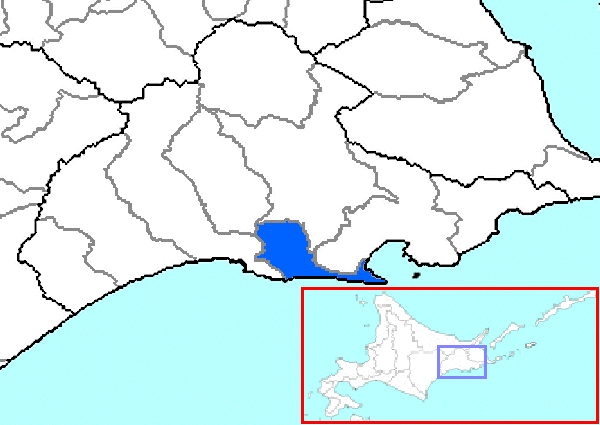 The location of Kushiro Town in Kushiro Subprefecture, Hokkaido Prefecture, Japan.